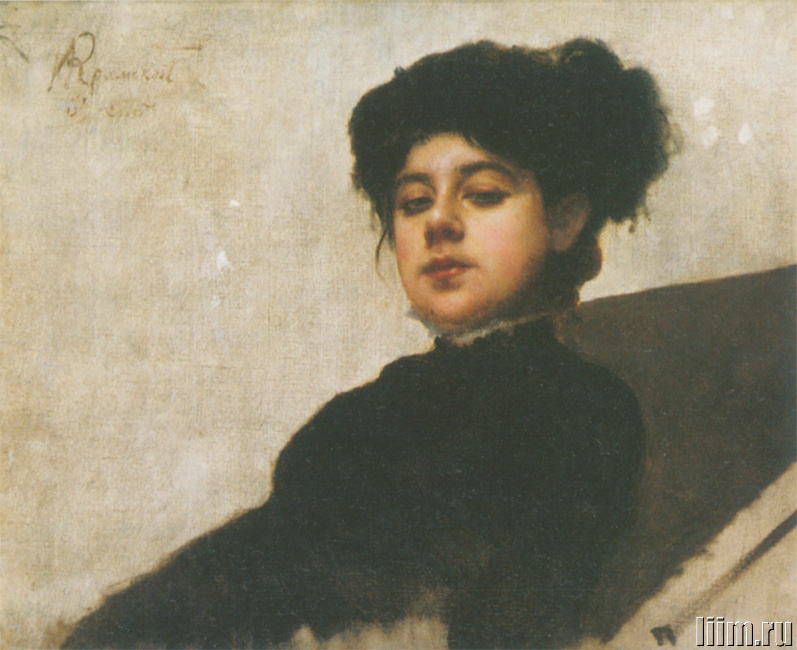 Preparatory draft for Portrait of an Unknown Woman